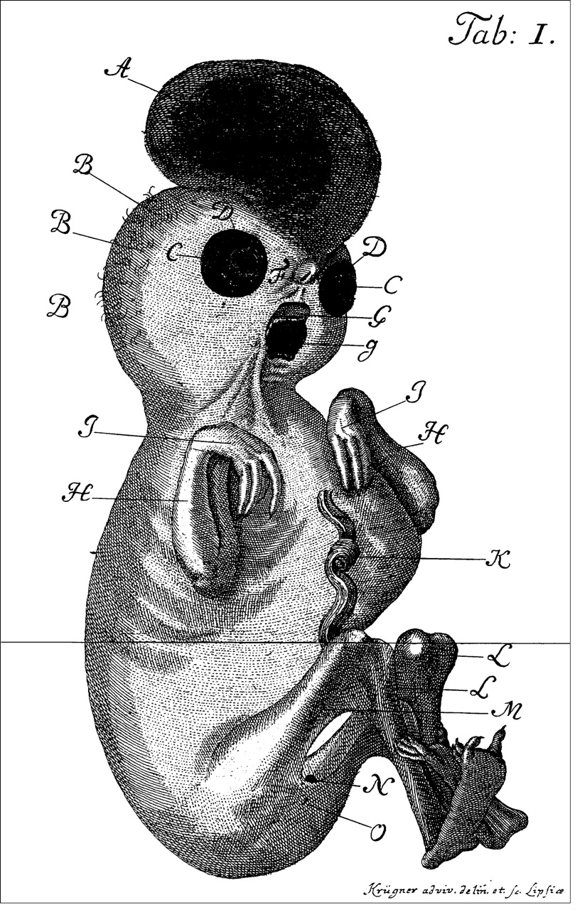 Engraving of the external features of the fetus, probably Roberts' syndrome